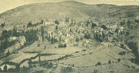 Village of Babchor, today Vapsorion, Greece